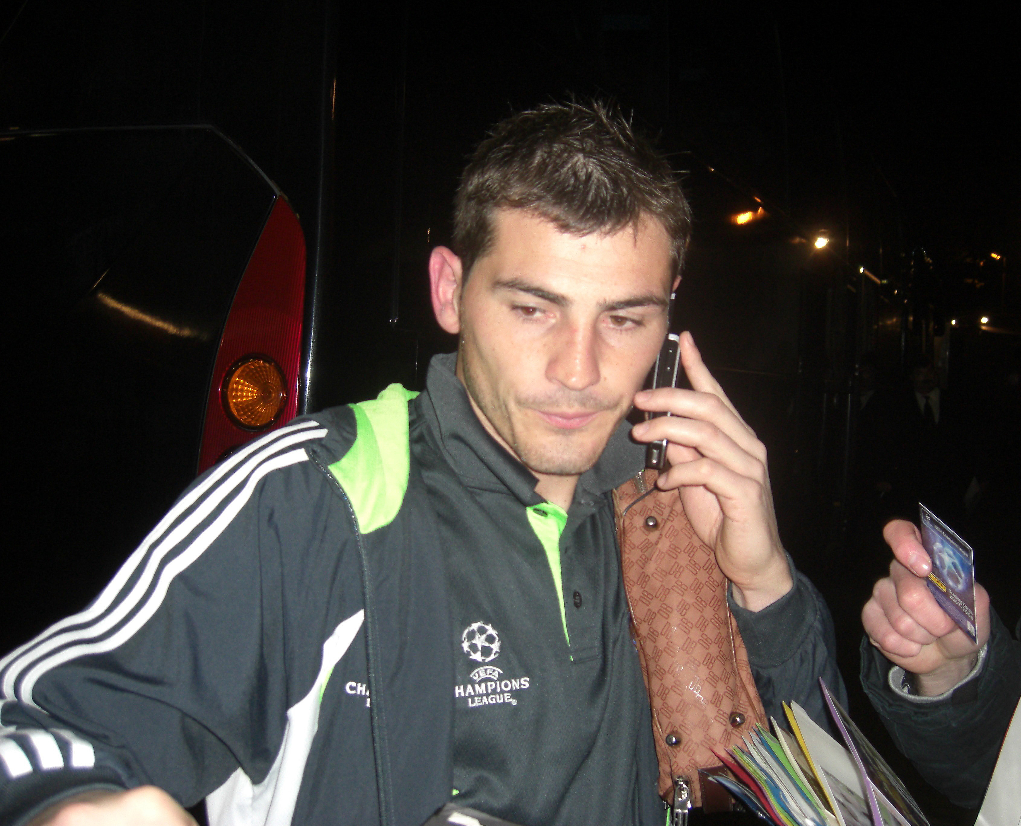 Champions League-Match Werder Bremen - Real Madrid 2:3